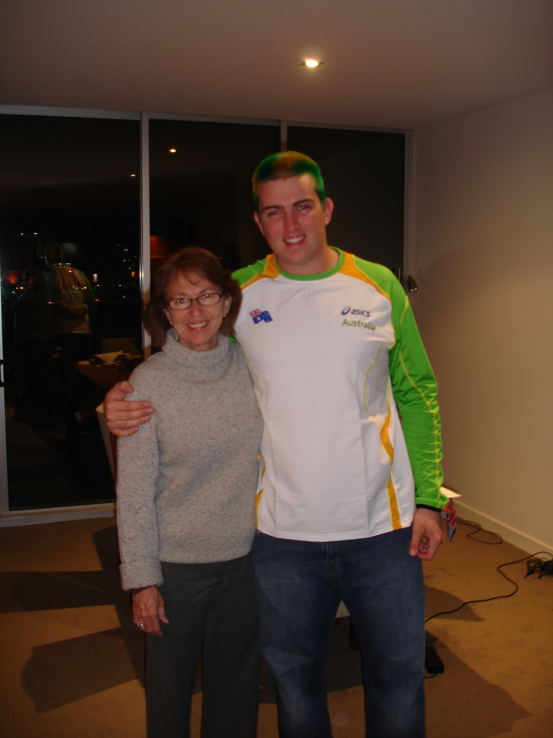 Julian with dyed green and gold hair to show his patriotism